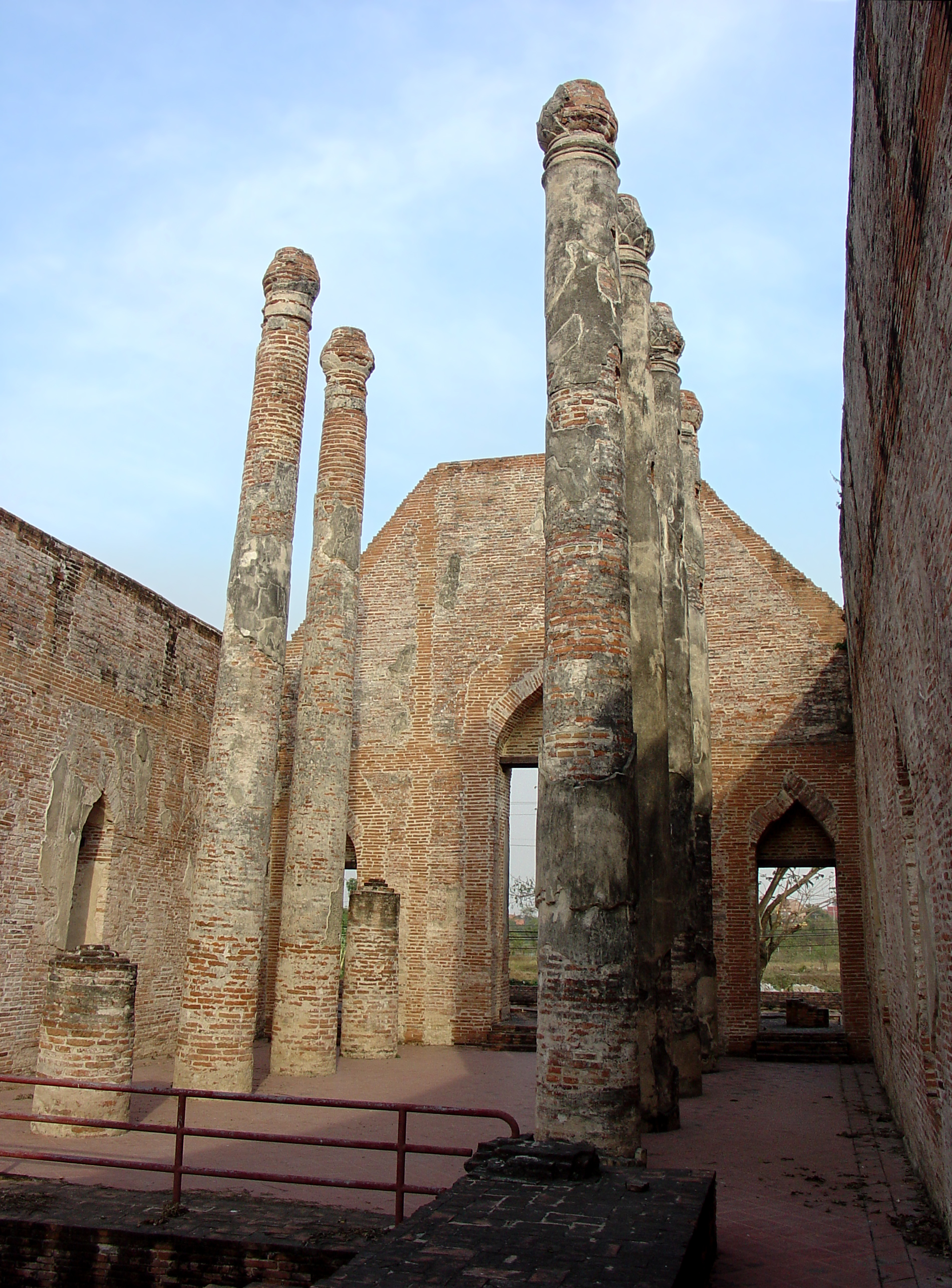 Monastery hall. 17th century, Late Ayutthaya style. Modern restorers have re-erected the walls, and some tapering columns with lotus-bud capitals. Like the hall itself, the columns are made of stuccoed brick. Bits of wood from the roof beams are also preserved, embedded here and there high up in the wall.